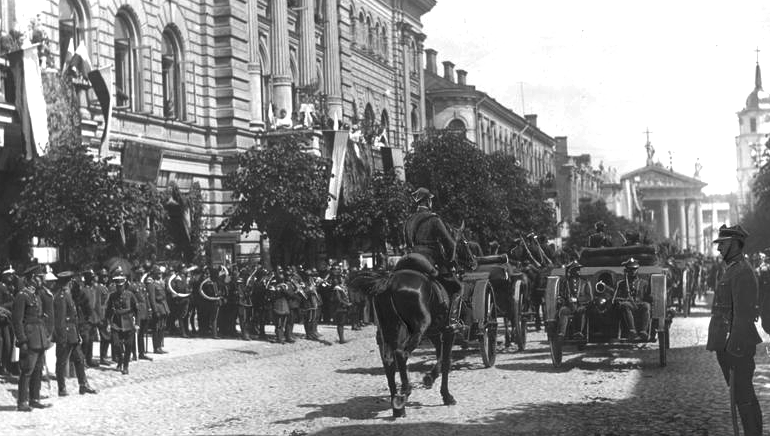 Celebration of incorporation of Vilnius Region to Poland 1922